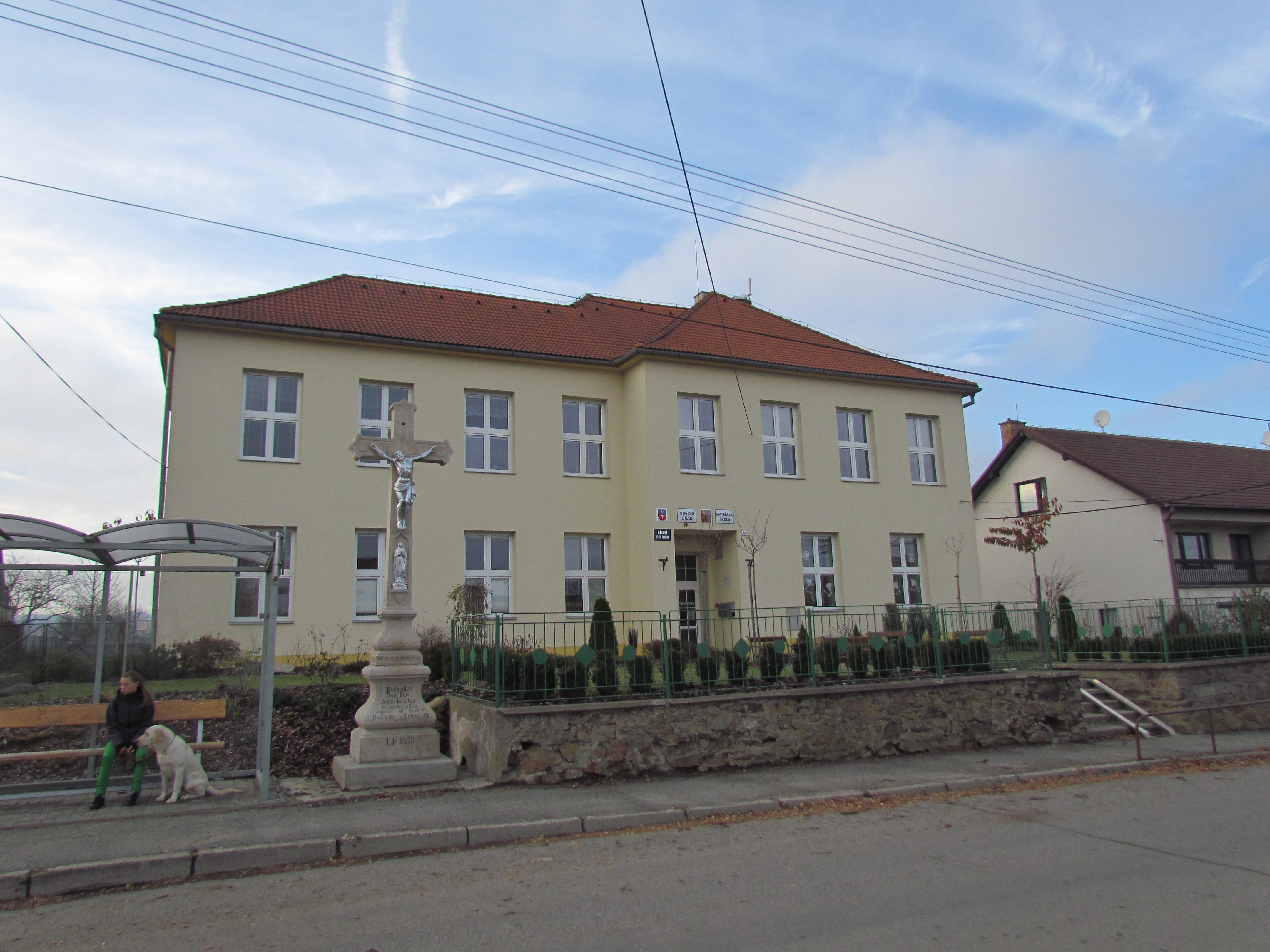 Municipal office in Petrovice, Třebíč District.